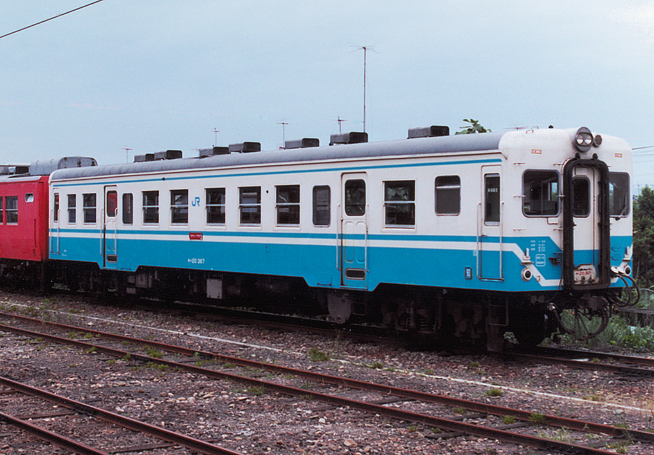 JR Shikoku Kiha 20 367 in JR Shikoku-color at Kotohira Station